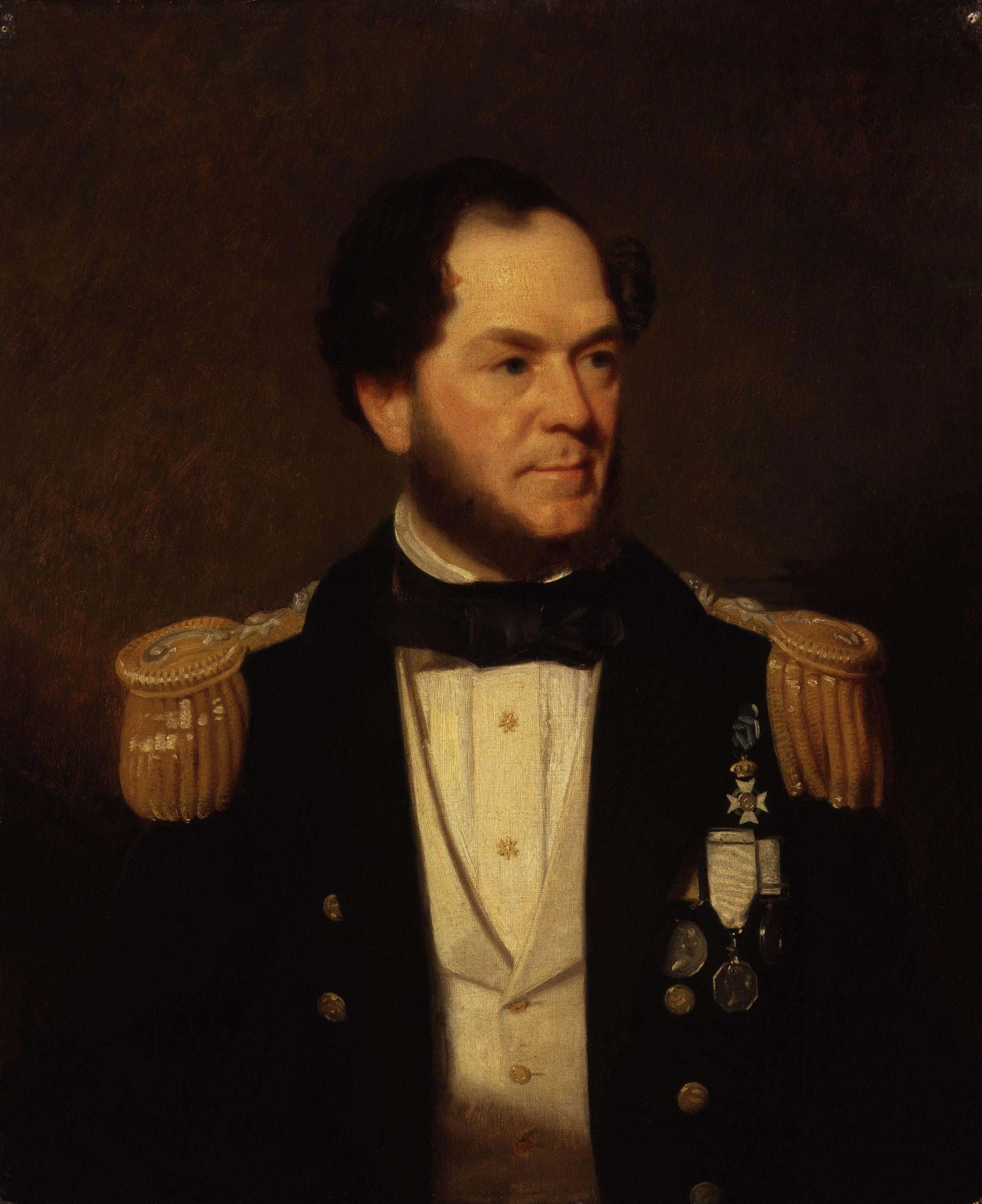 Sir Erasmus Ommanney, by Stephen Pearce (died 1904). All images in this batch have been confirmed as author died before 1939 according to the official death date listed by the NPG.